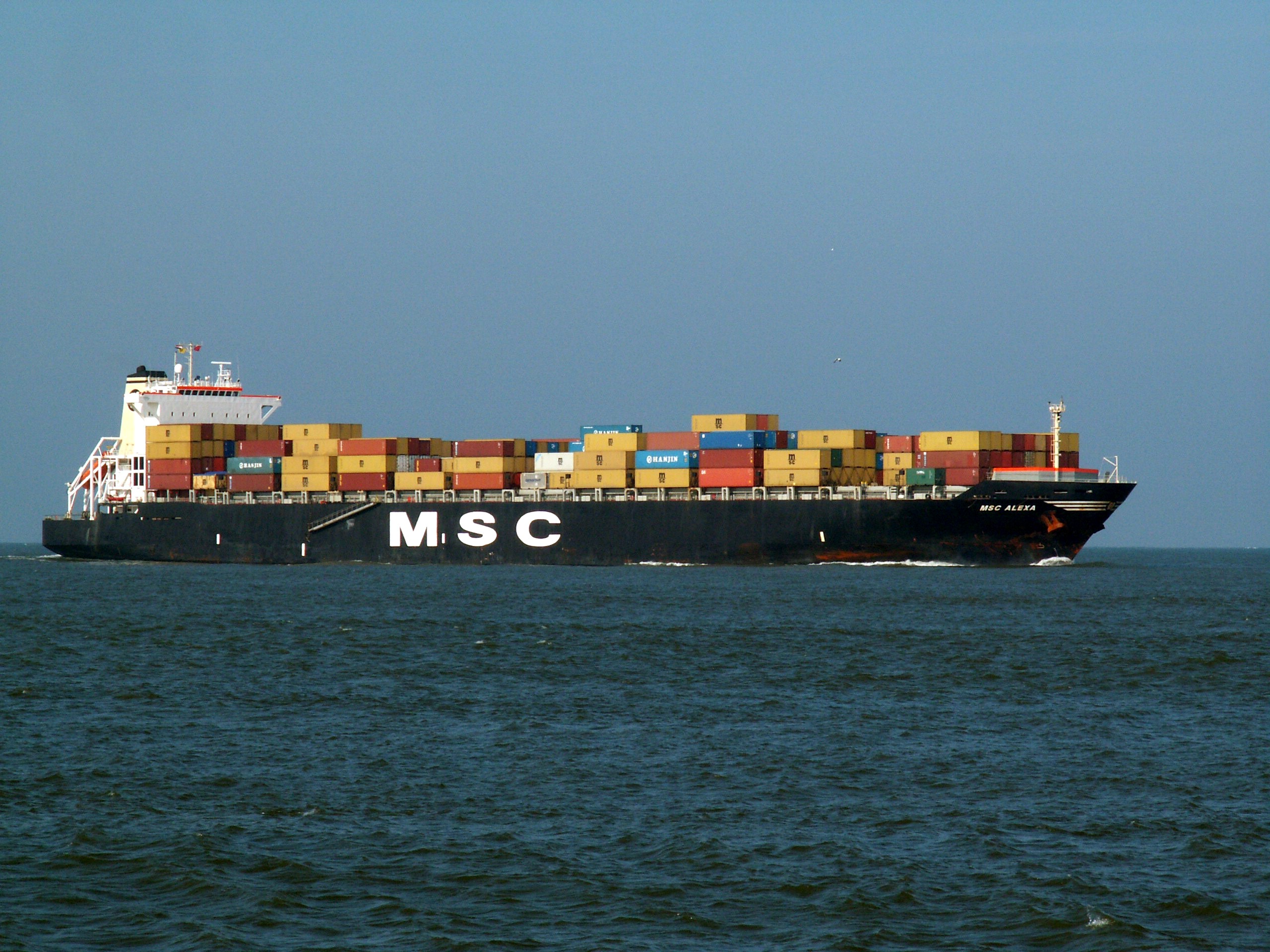 MSC Alexa Port of Rotterdam 24-Feb-2006